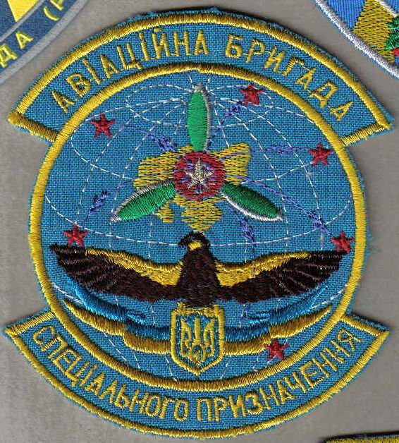 Sleeve patch for 15th Special Purpose Transport Aviation Brigade of Ukrainian Air Force